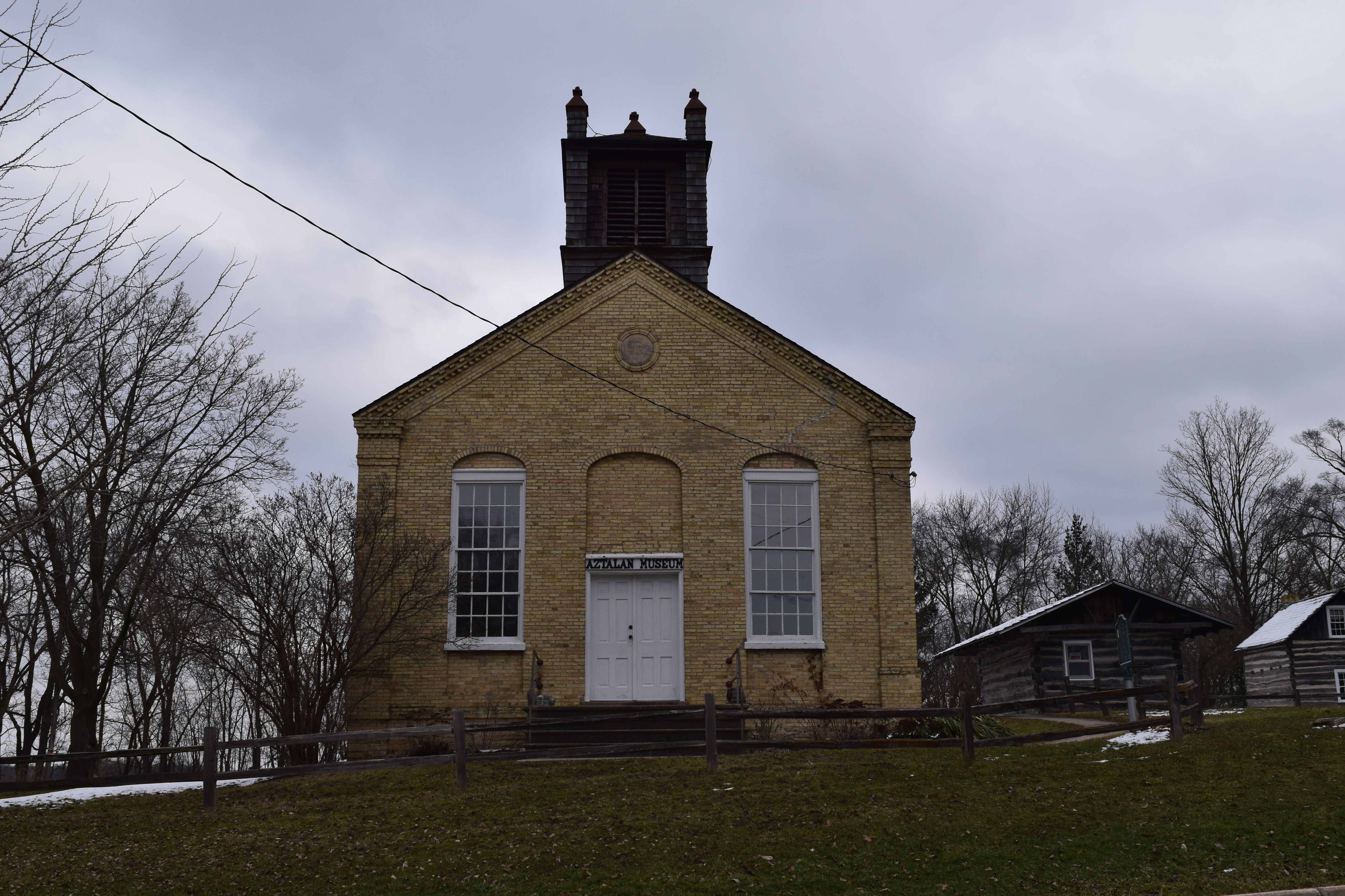 The Pioneer Aztalan Site, also known as the Aztalan Museum. The museum is located at the southeast corner of the junction of county roads B and Q in Aztalan, Wisconsin.